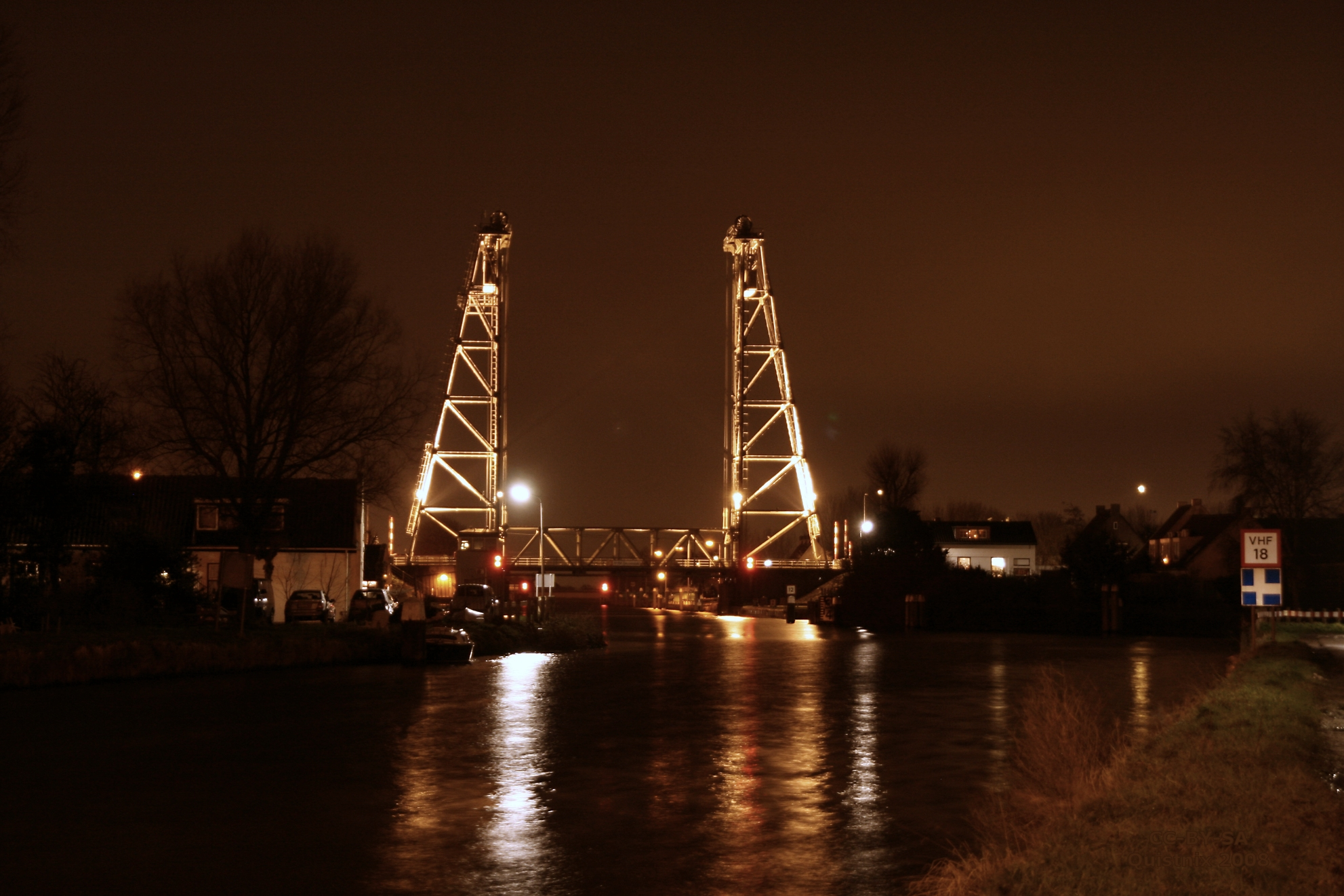 Vertical lift bridge across the Gouwe river, Alphen aan den Rijn, the Netherlands